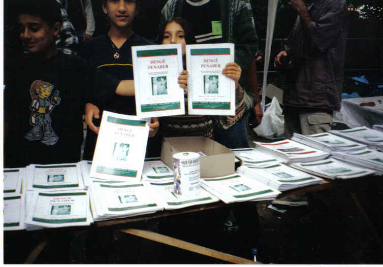 Children selling the Kurdish magazine Dengê Penaber (Voice of the Refugee), Germany.